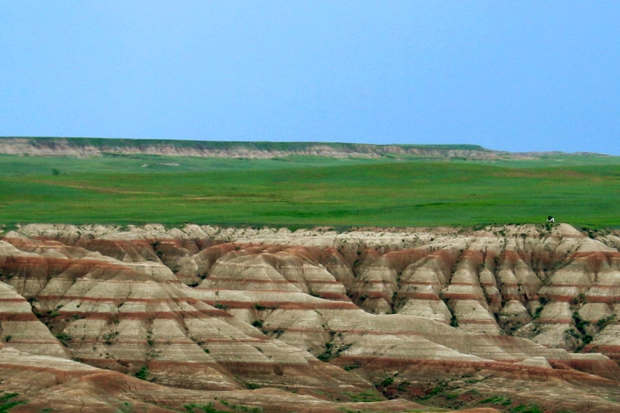 Another shot of the abrupt shift from green to badlands.